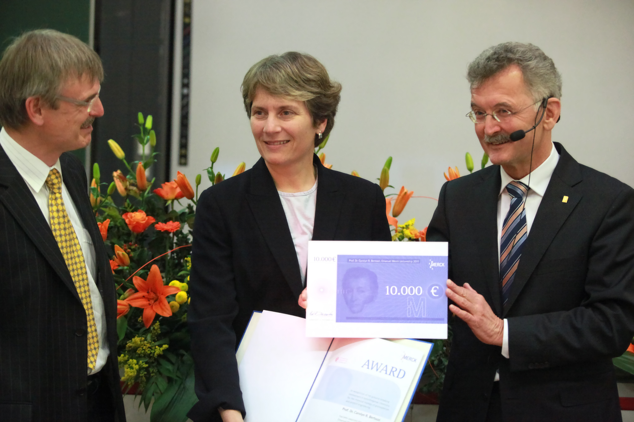 The American chemist Carolyn Bertozzi, on 14 November 2011 at the Technical University of Darmstadt (Germany), during the Emanuel Merck Lectureship 2011. Left Wolf-Dieter Fessner (TU Darmstadt}, right Karl-Heinz Derwenskus (Merck KGaA)